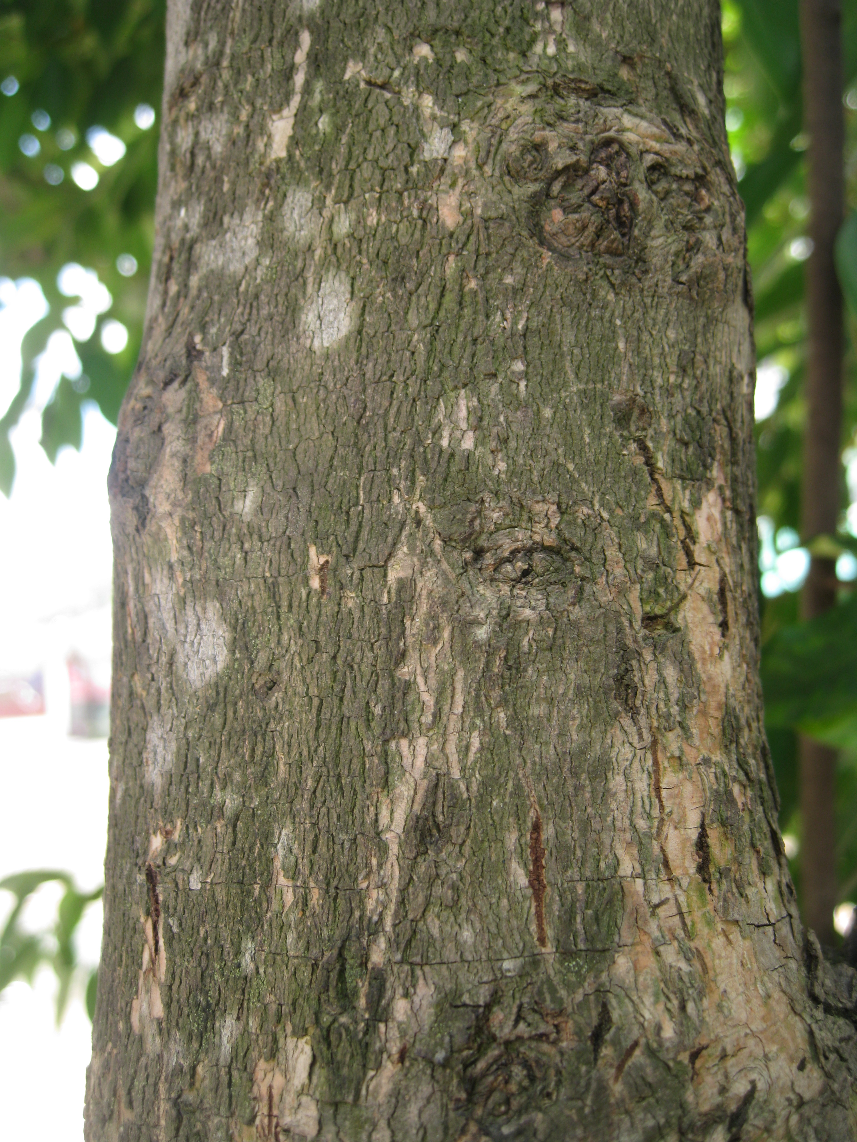 Bark of Syzygium polyanthum tree.